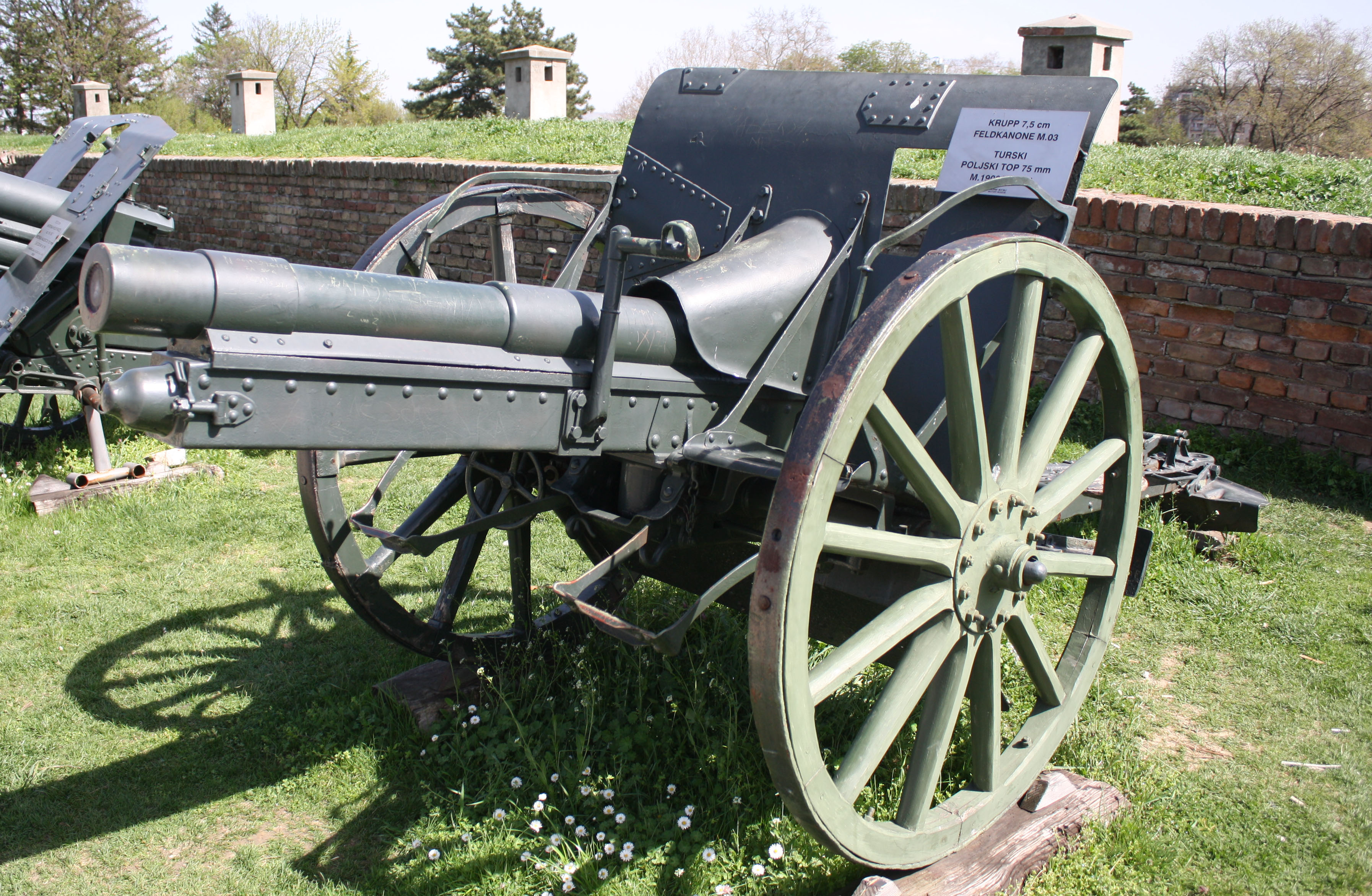 The Krupp 7.5cm Feldkanone M.03, part of Belgrade Military Museum outer exhibition at Kalemegdan fortress.